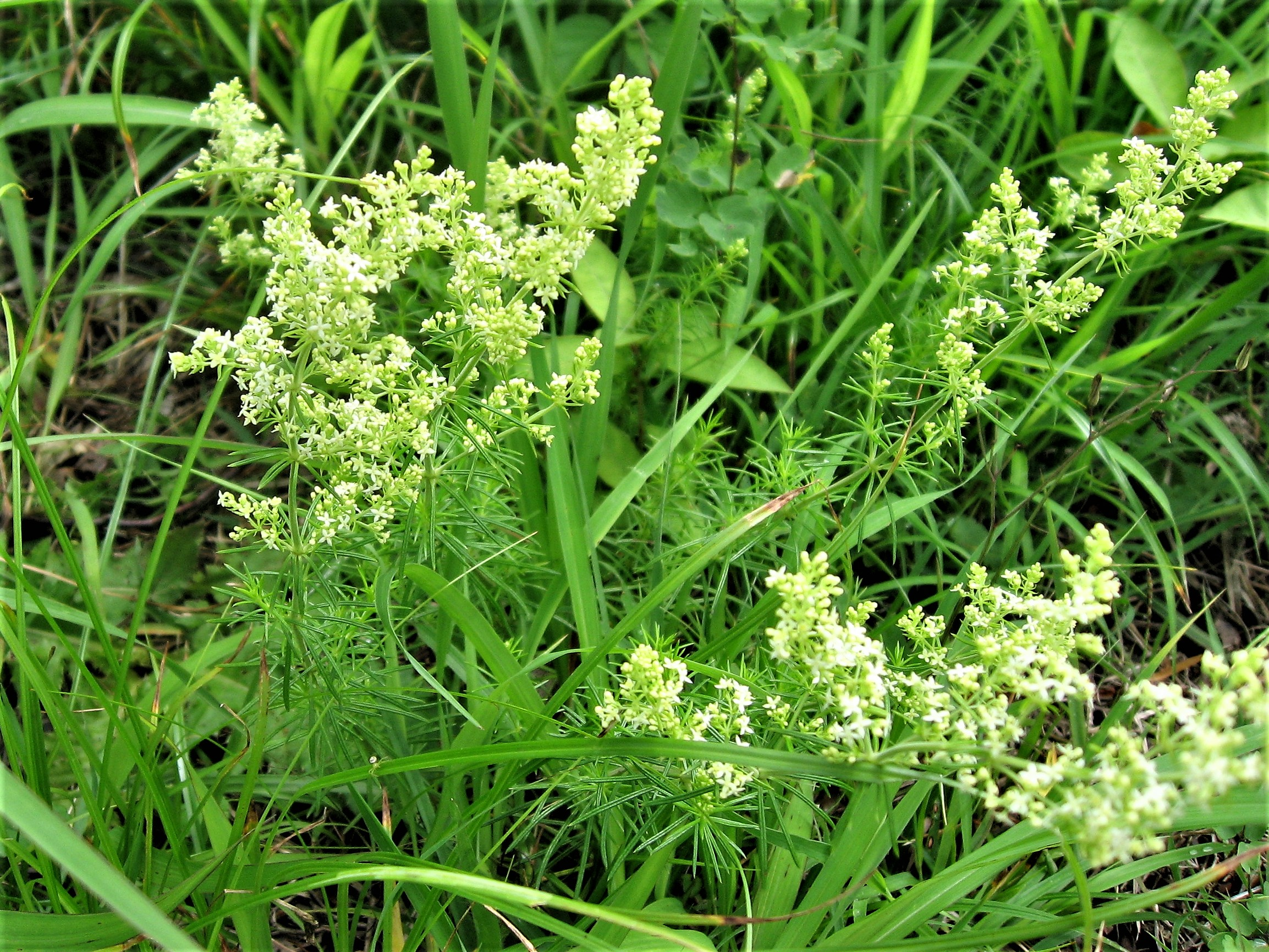 Galium verum subsp. asiaticum f. lacteum, Aizu area, Fukushima pref., Japan